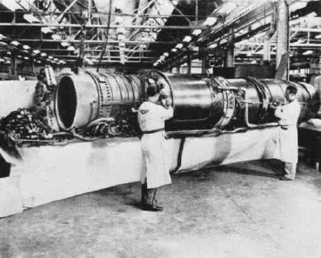 A Westinghouse J40 jet engine in 1952. It was a turbojet engine intended by the U.S. Navy Bureau of Aeronautics in early 1946 to power several fighter aircraft. The engine was rated at 7,500 lbf (33 kN) of thrust at sea level static conditions. However, the engine never became operational and was cancelled in 1955.